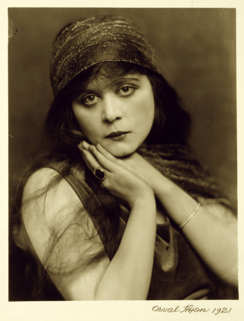 Portrait of Theda Bara with hands held under her chin.